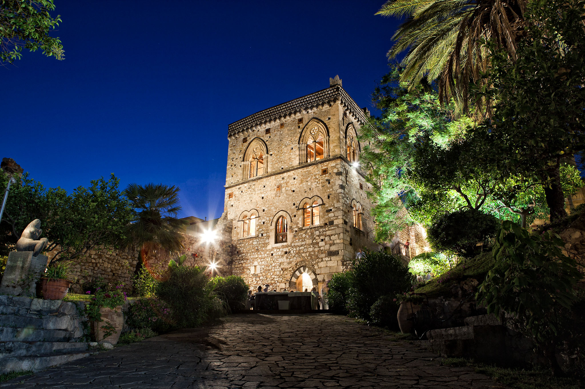 Fondazione Mazzullo - Taormina